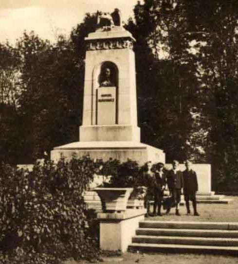 Monument of Gabriel Narutowicz in Bielsko-Biała. It was only monument of first polish president in Poland. Build in 1928, demolished in 1939.